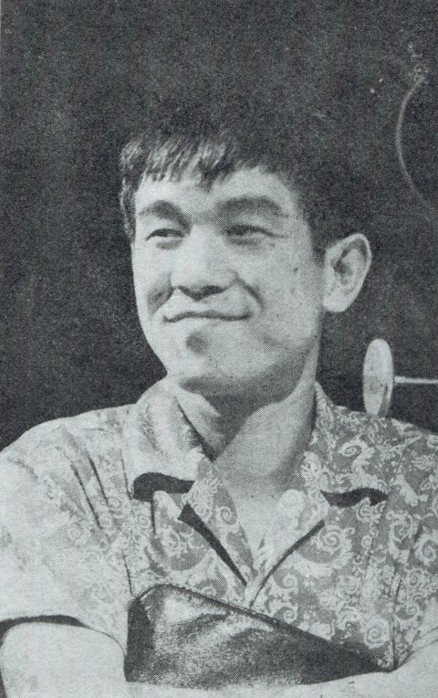 Yukio Aoshima